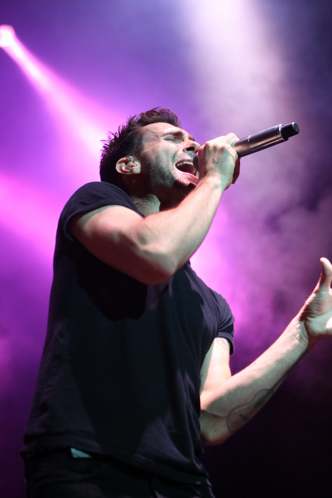 Adam Levine at the Comcast Center in Mansfield, MA.